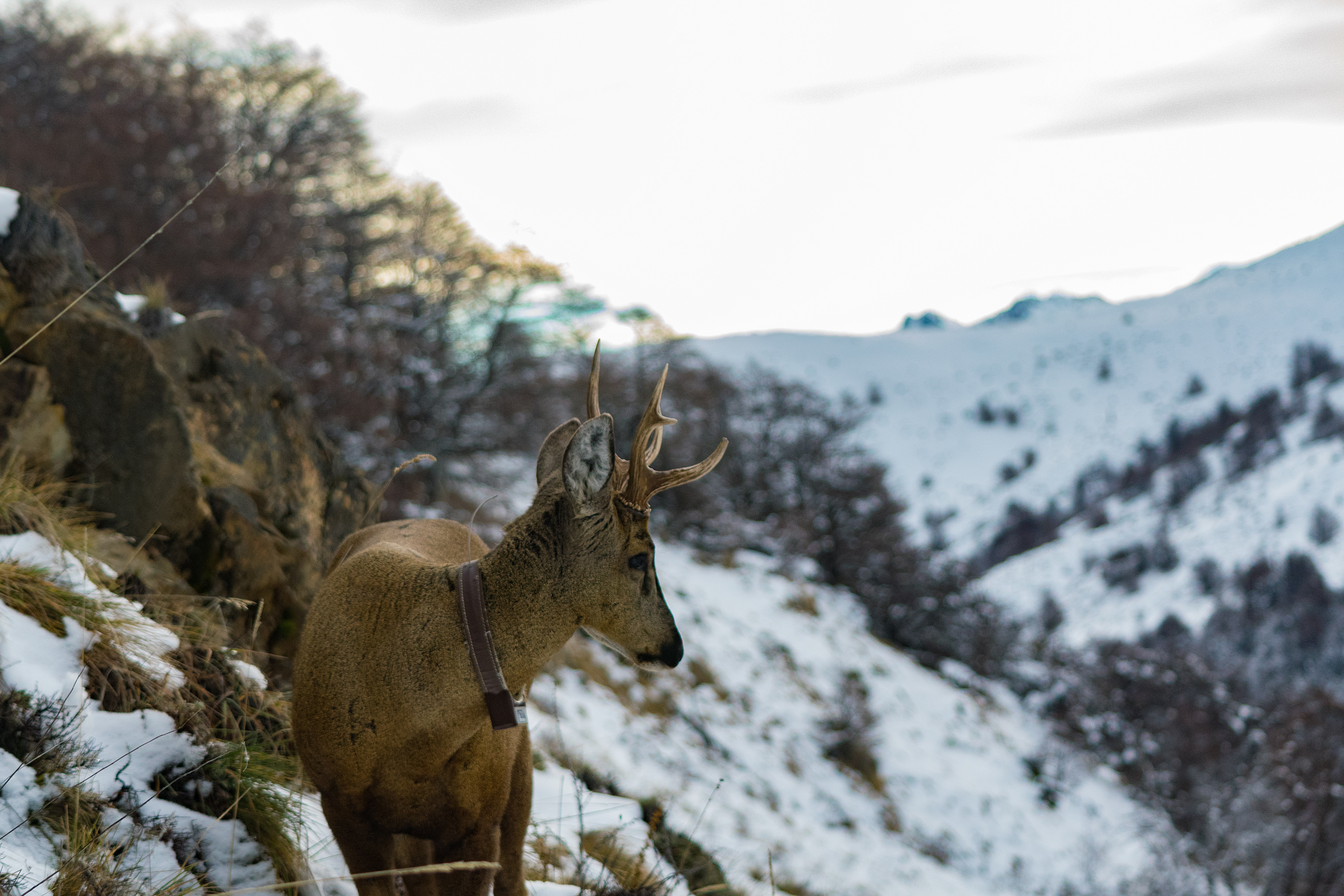 Male South Andean Deer (Hippocamelus bisulcus) at Cerro Castillo national reserve, Aysén region, Chile. Tracking belt used by CONAF to protect the species.